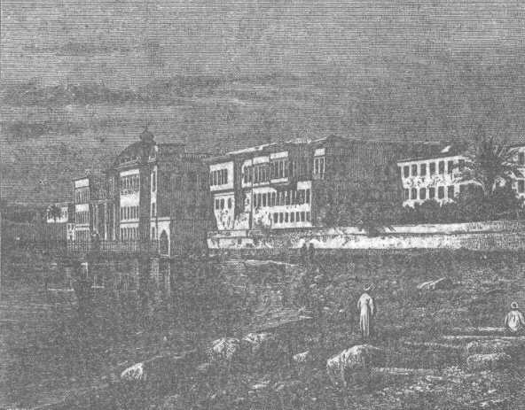 Palace of the Khedive in Alexandria, Ras el-Tin Palace.